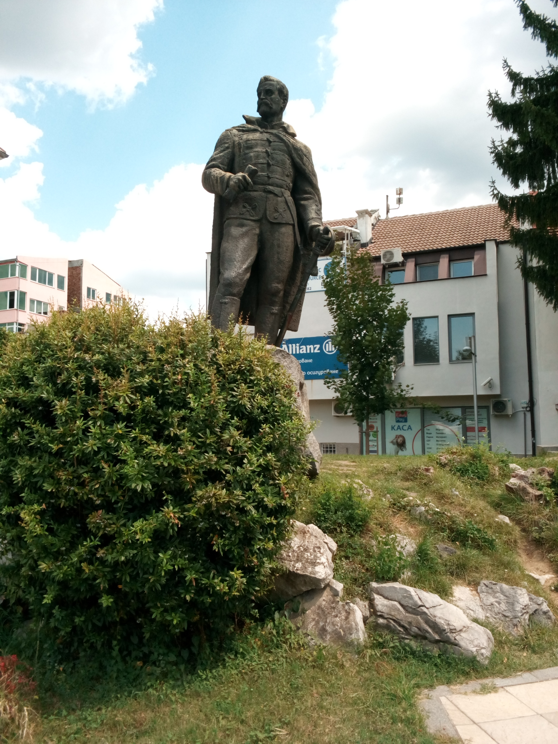 Monument of Tsanko Dyustabanov,Gabrovo